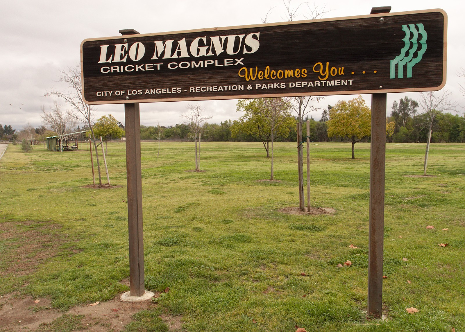 Sign welcoming you to the Leo Magnus Cricket Complex/Sepulveda Basin Cricket Fields, part of Woodley Park in Van Nuys, California.